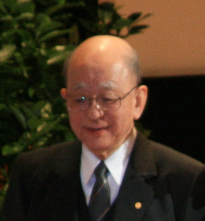 Akira Suzuki, Laureate of the Nobel Prize for Chemistry 2010